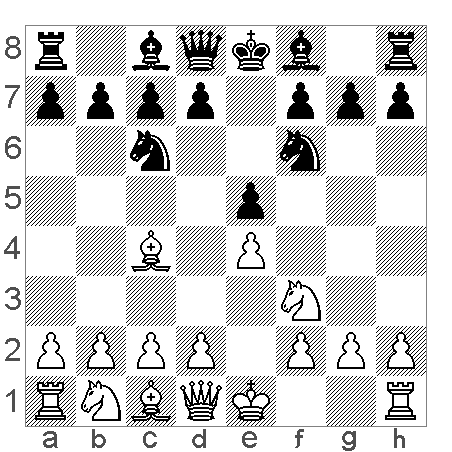 chess diagram 2_knights_defence Source: CBlight + my processing